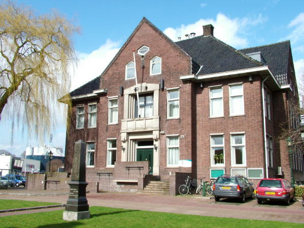 Town hall in Varsseveld, the Netherlands